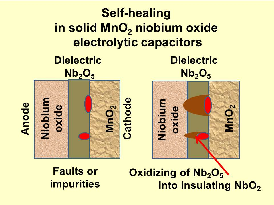 Self-healing in solid niobium electrolytic capacitors with MnO2 dielectric